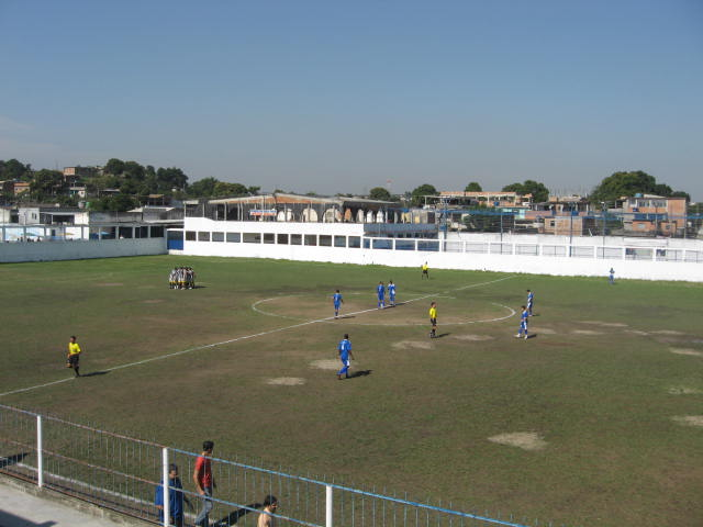 José Alvarenga stadium